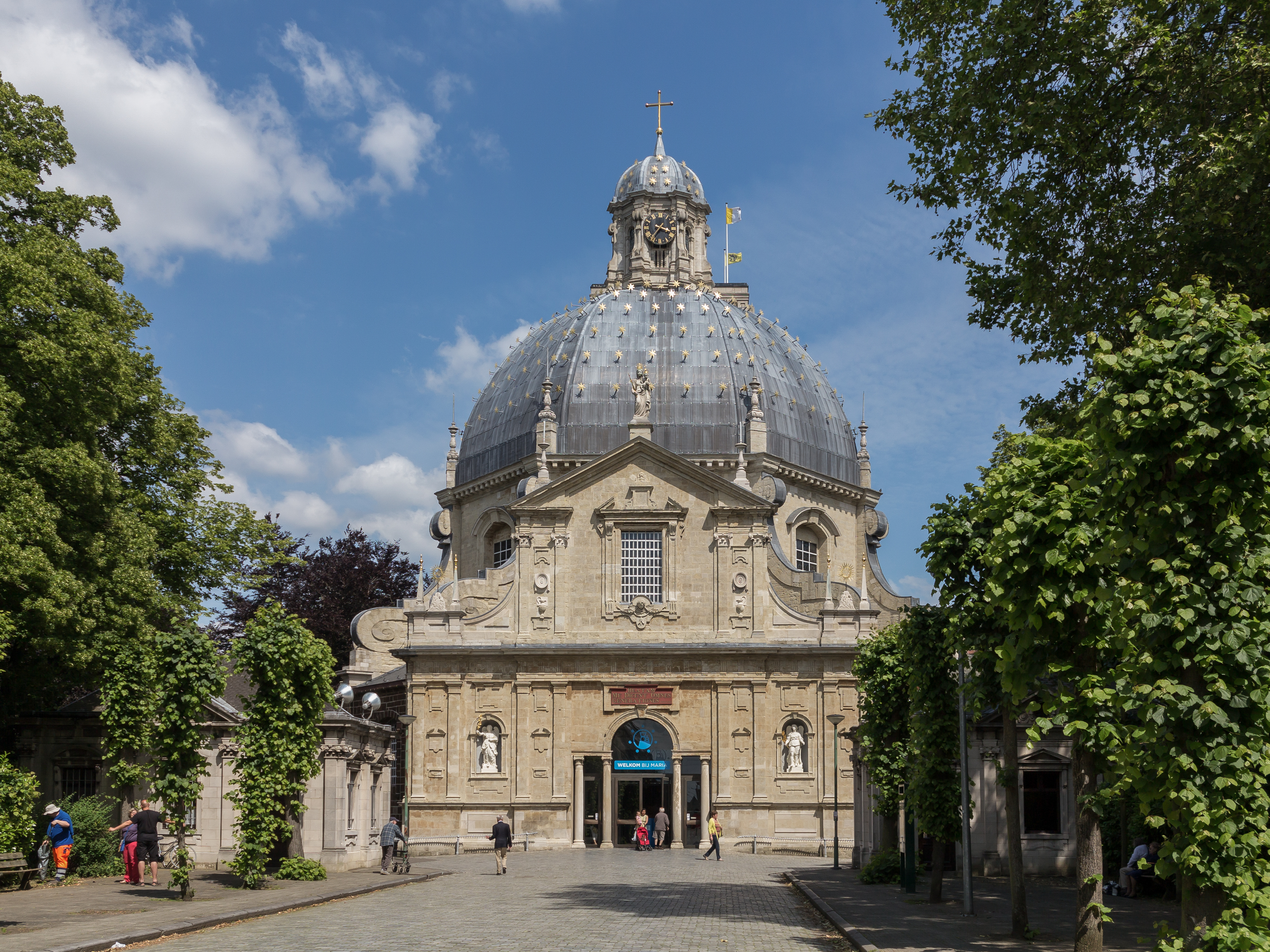 Scherpenheuvel, church: de Onze-Lieve-Vrouwebasiliek